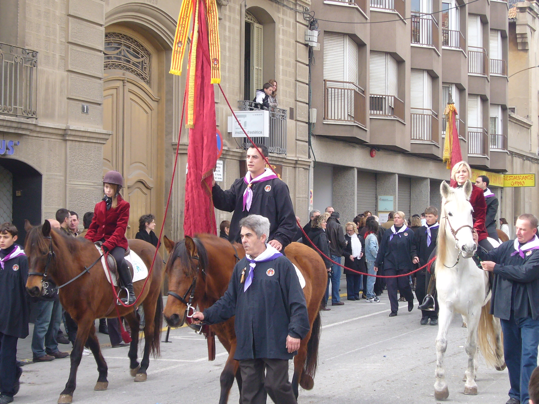 Tres Tombs in Igualada 2008